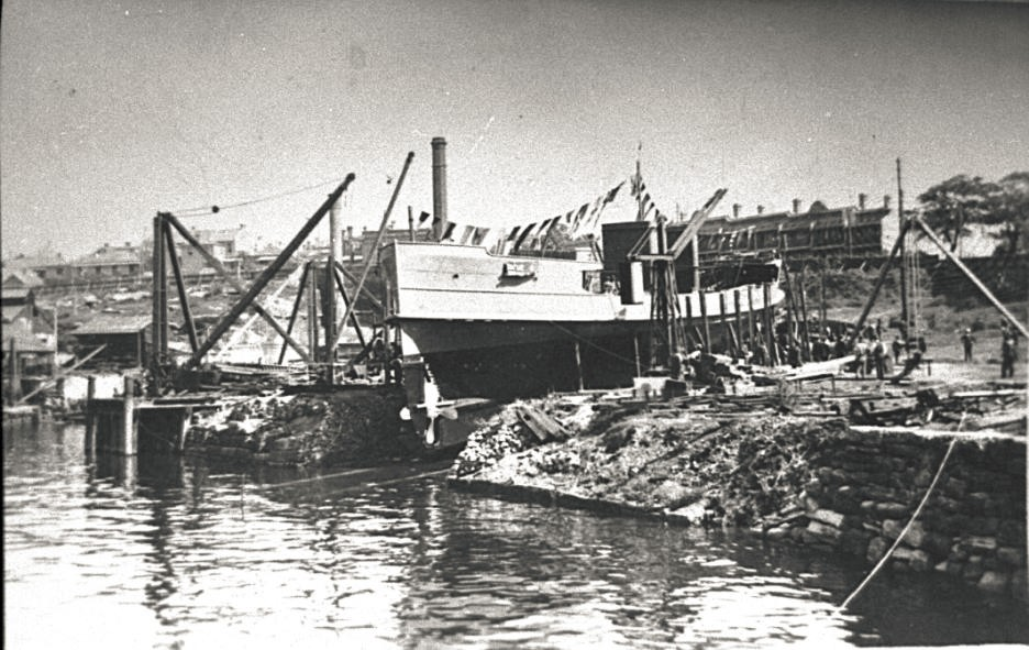 Sydney Ferry BARAGOOLA launch 14 Feb 1922